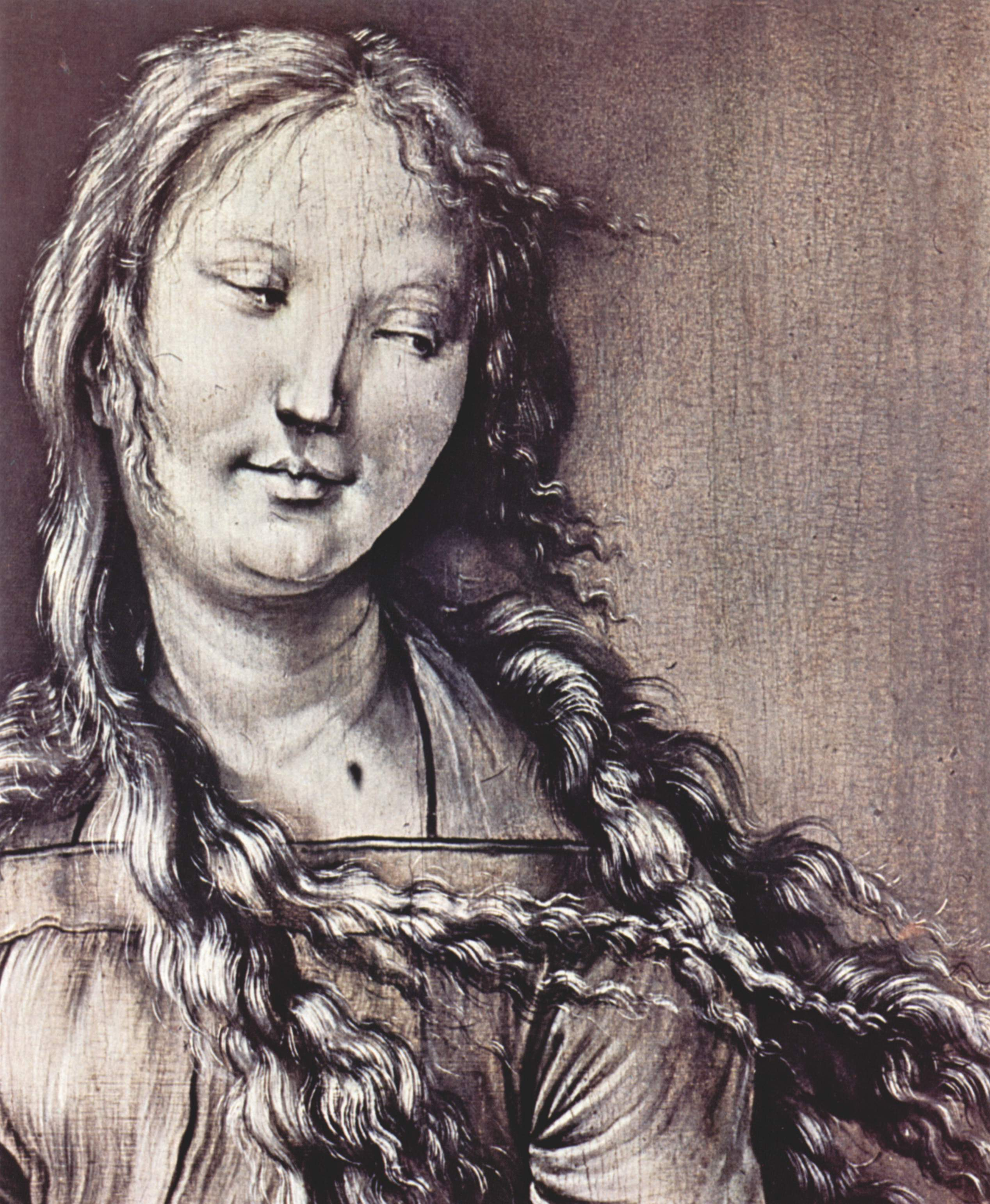 Standing panel: unknown Saint, Lucy (?), upper torso